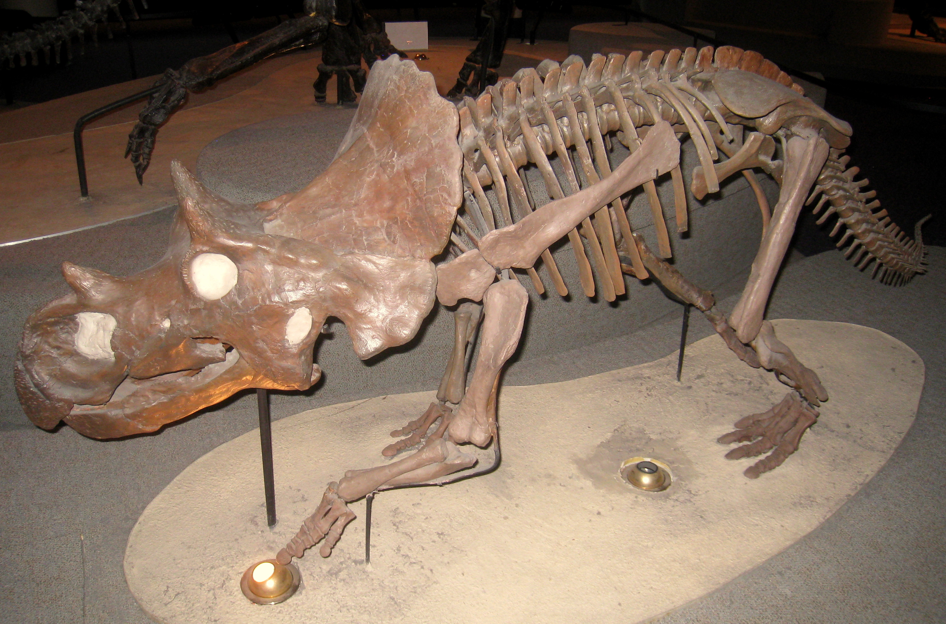 Avaceratops lammersi fossil. Exhibit in the Academy of Natural Sciences, 1900 Benjamin Franklin Parkway, Philadelphia, Pennsylvania, USA. Photography was permitted in this area of the museum without restrictions.